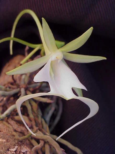 Ghost Orchid (Dendrophylax lindenii) by Mick Fournier, Pompano Beach, Florida